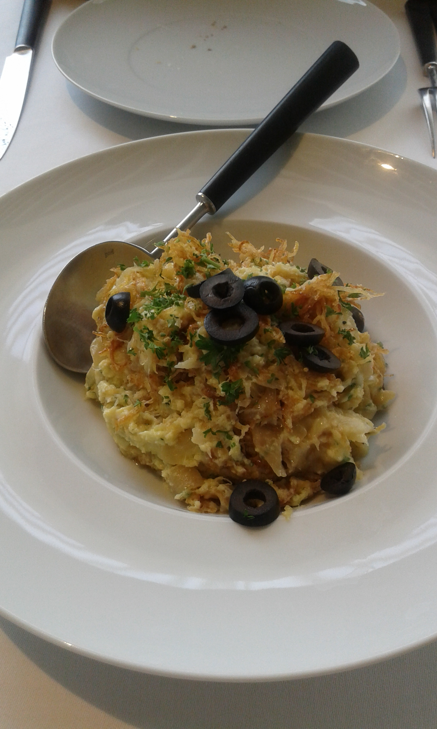 Bacalhau à Brás (Cod à Brás) is made from shreds of salted cod (bacalhau), onions and thinly chopped (matchstick-sized) fried potatoes, all bound with scrambled eggs. It is usually garnished with black olives and sprinkled with fresh parsley. The origin of the recipe is uncertain, but it is said to have originated in Bairro Alto, an old quarter of Lisbon. The name "Brás" (or sometimes Braz, Blaise in English) is supposedly the name of its creator. This photo has been taken in the country: China